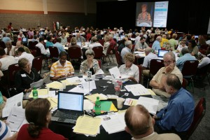 America Speaks event